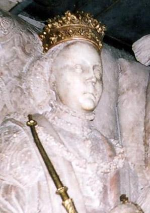 Queen Catherine of Sweden (née of Saxe-Lauenburg) as depicted on the sarcophagus of her grave sculpted by Willem Boy about 1570Place: Uppsala Domkyrka, Upsala, Sweden